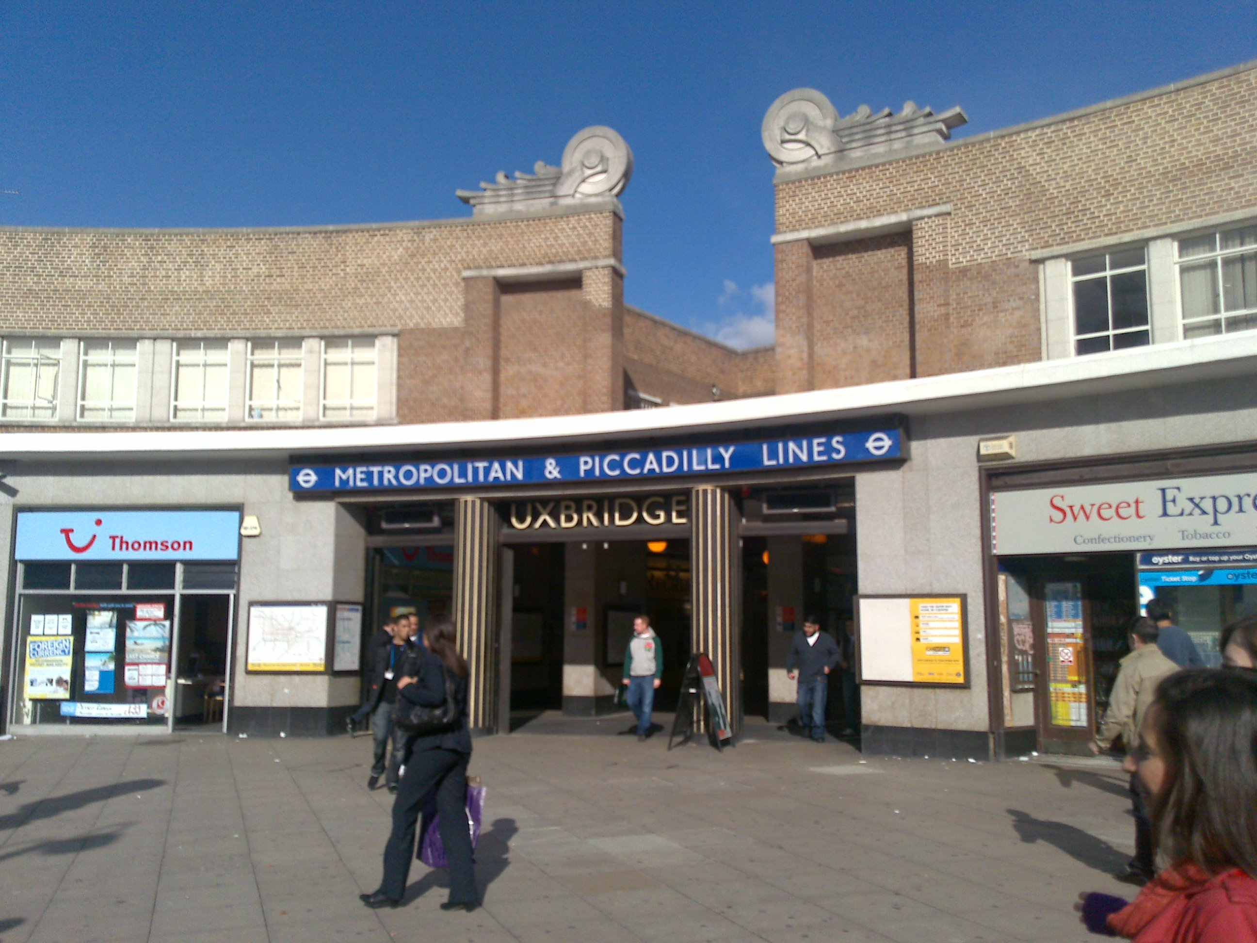 Tube station in London